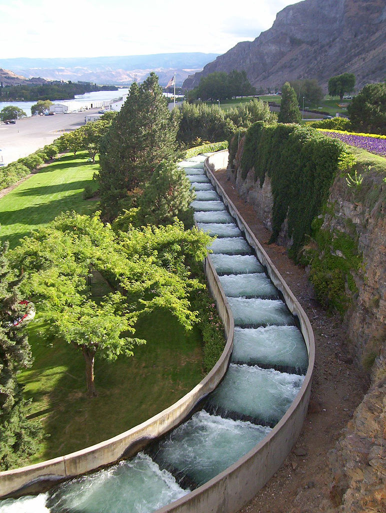 Salmon ladder at Rocky Reach Dam; Washington, United States.